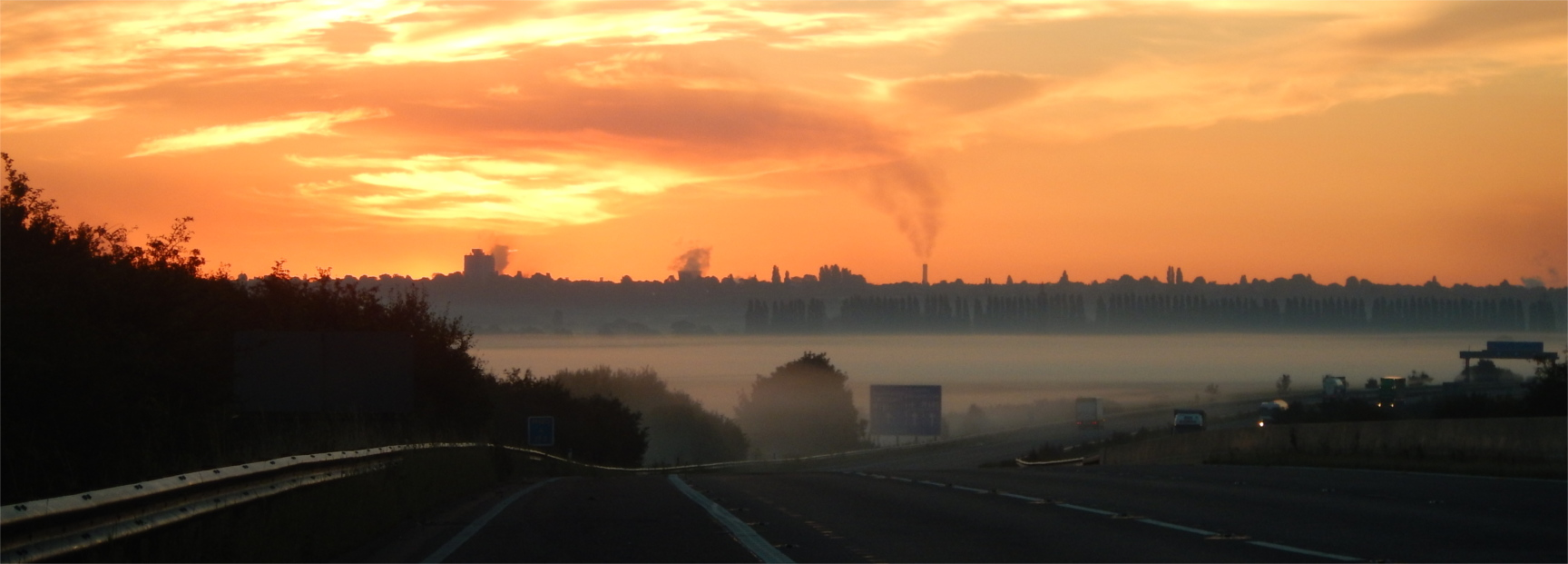 The skyline of Scunthorpe taken at 0600 in August 2016